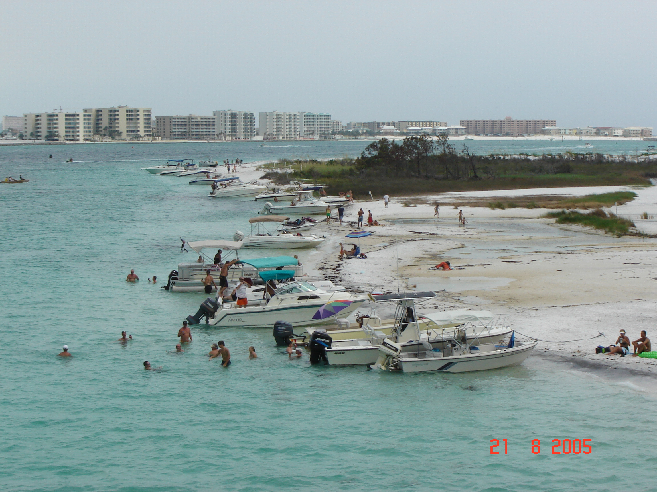 Boaters in Destin, Florida